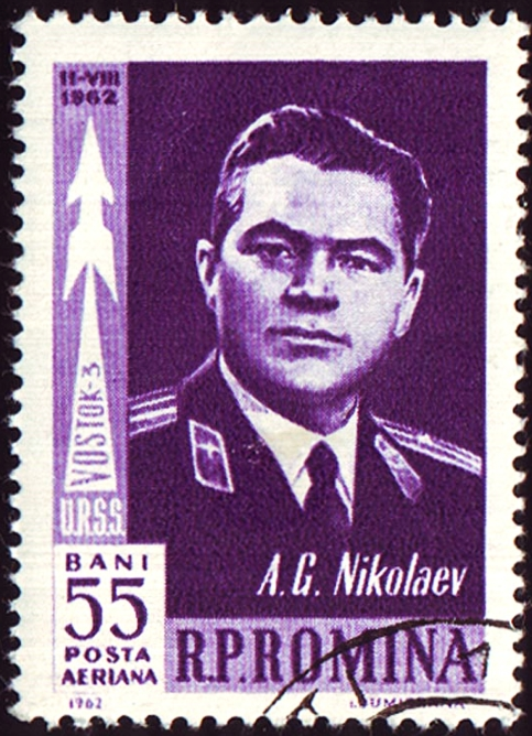 Romanian stamp of 1962. Soviet cosmonaut Andrian Nikolayev (1929–2004).